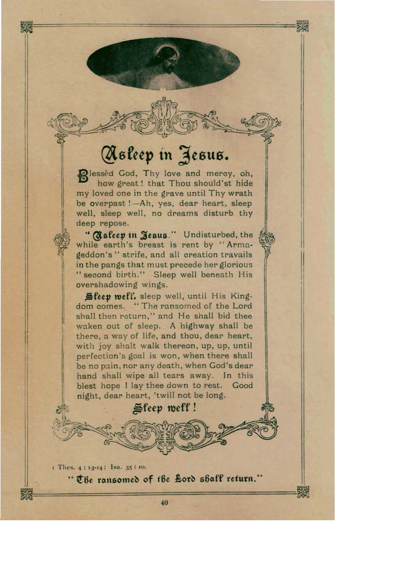 Asleep in Jesus, motive card, Gertrude Seibert, Bible Students